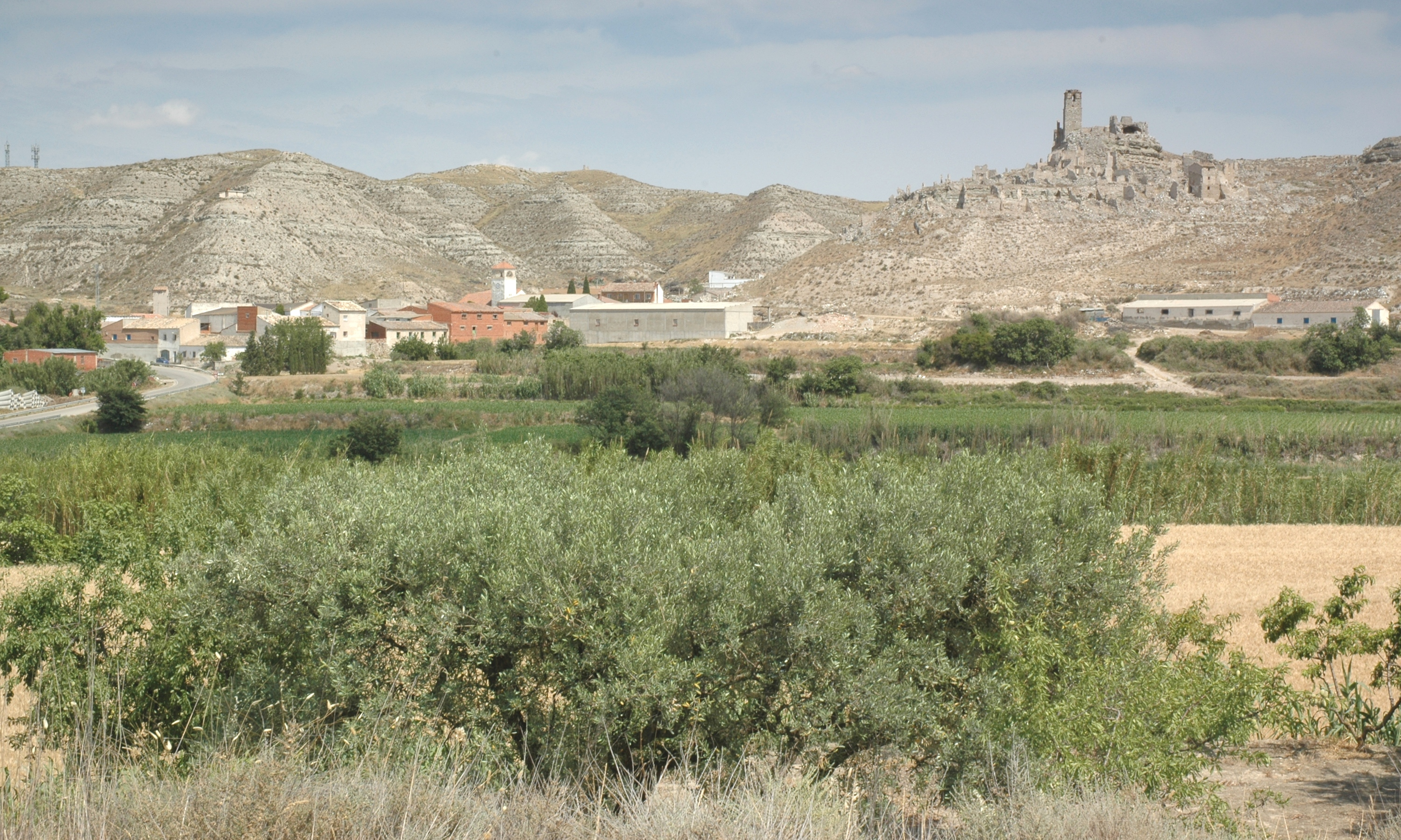 General view of the new and old villages of Rodén, Fuentes del Ebro municipality, province of Zaragoza, Spain